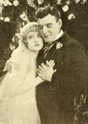 Still from the American film Castles in the Air (1919) with May Allison and Ben F. Wilson, on page 1144 of the May 24, 1919 Moving Picture World.